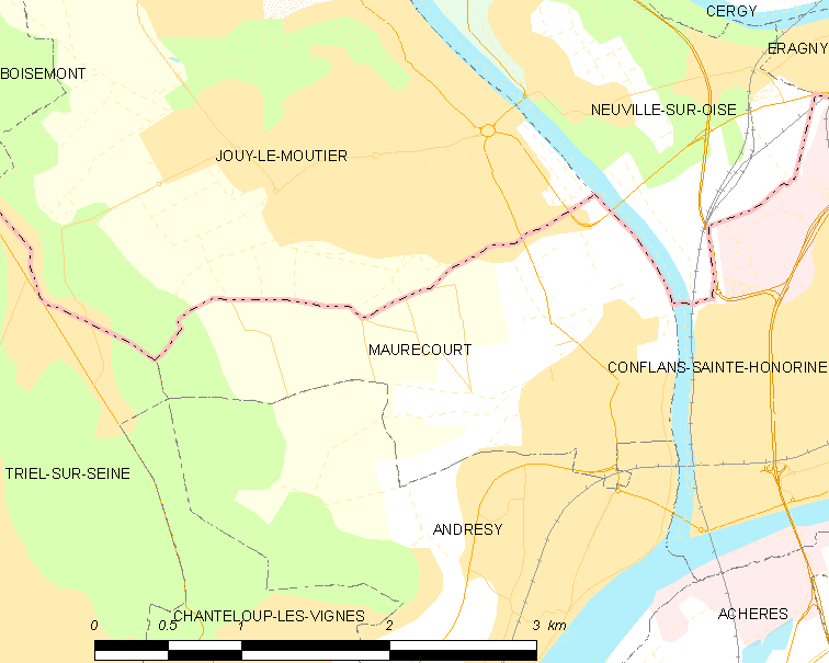 Map of French municipality Maurecourt